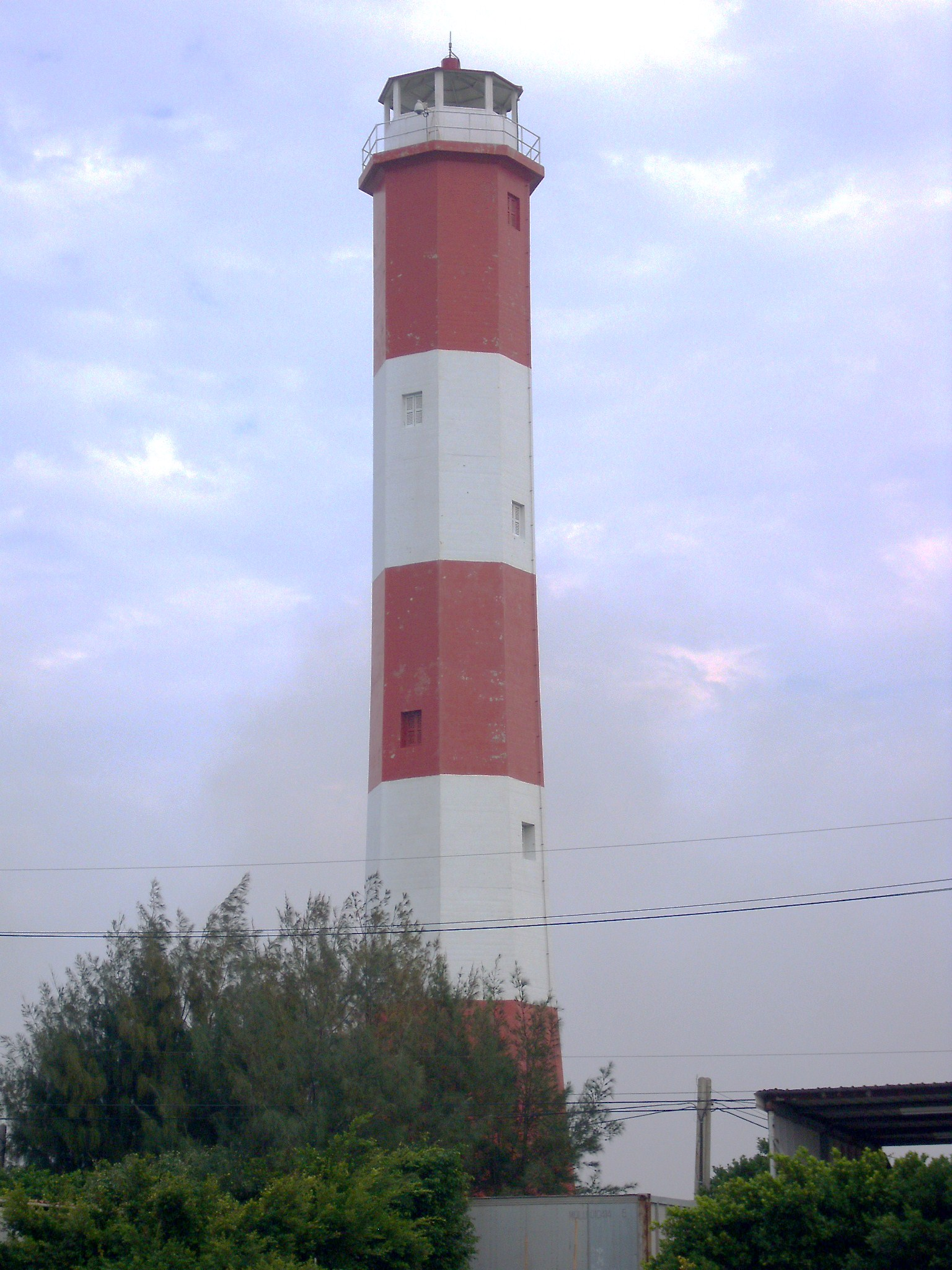 Gaomei LighthouseBân-lâm-gú: 高美燈塔，佇臺中清水。